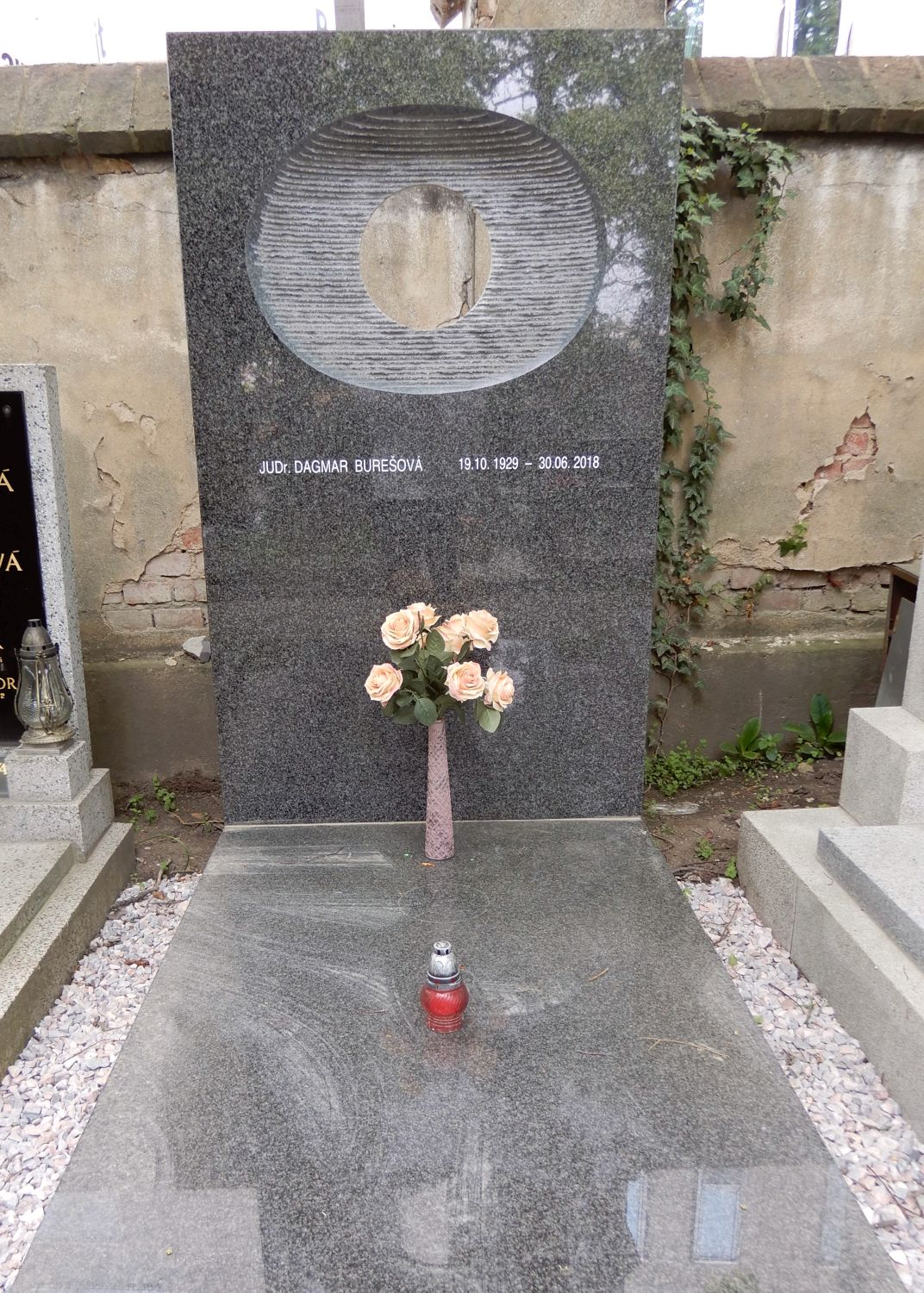 Grave of politician and Jurist Dagmar Burešová (1929-2018), Cemetery in Střešovice, Prague 6